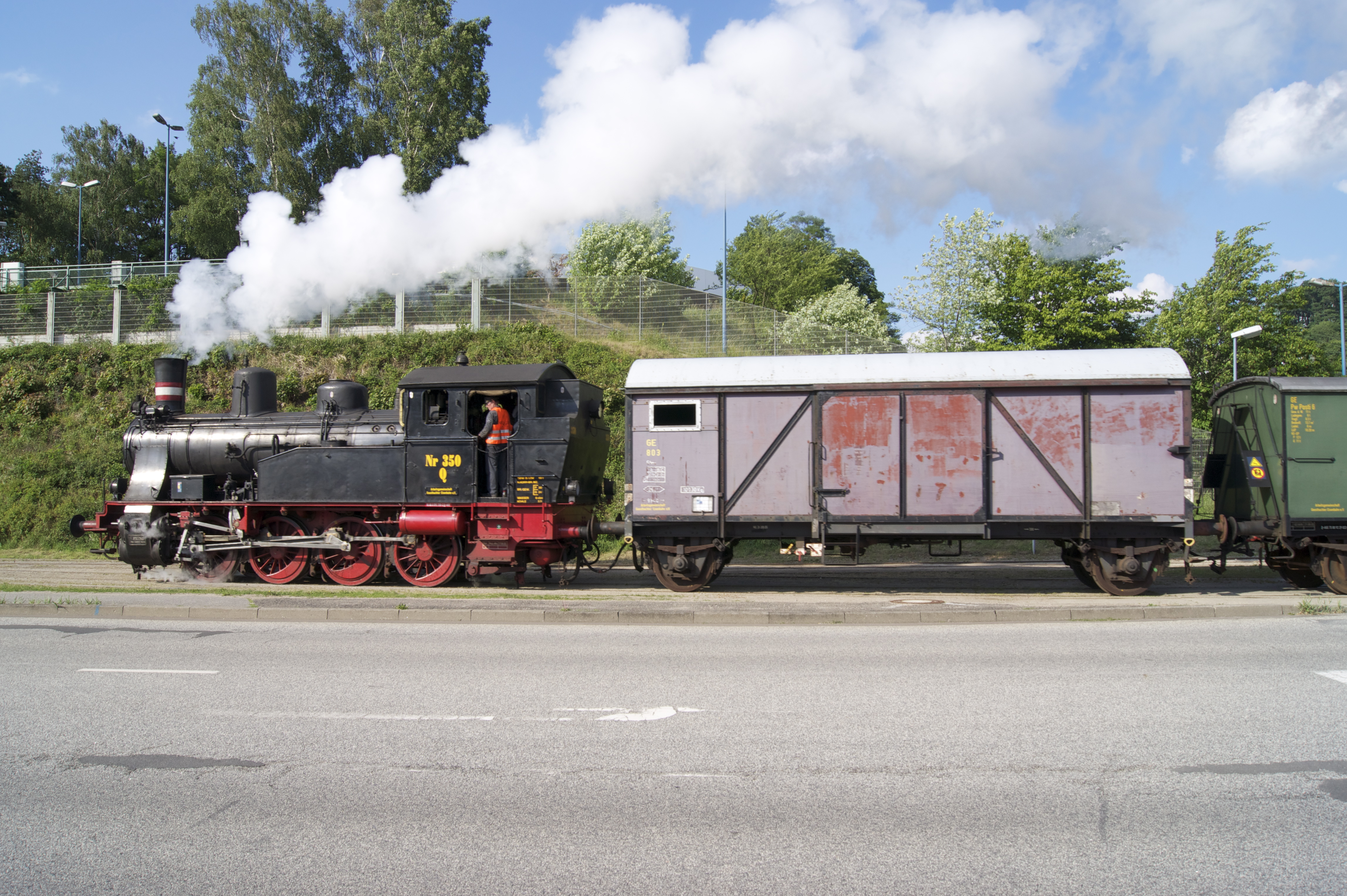 Geesthacht (Krümmel), Germany: Steam Train in front of the nuclear plant